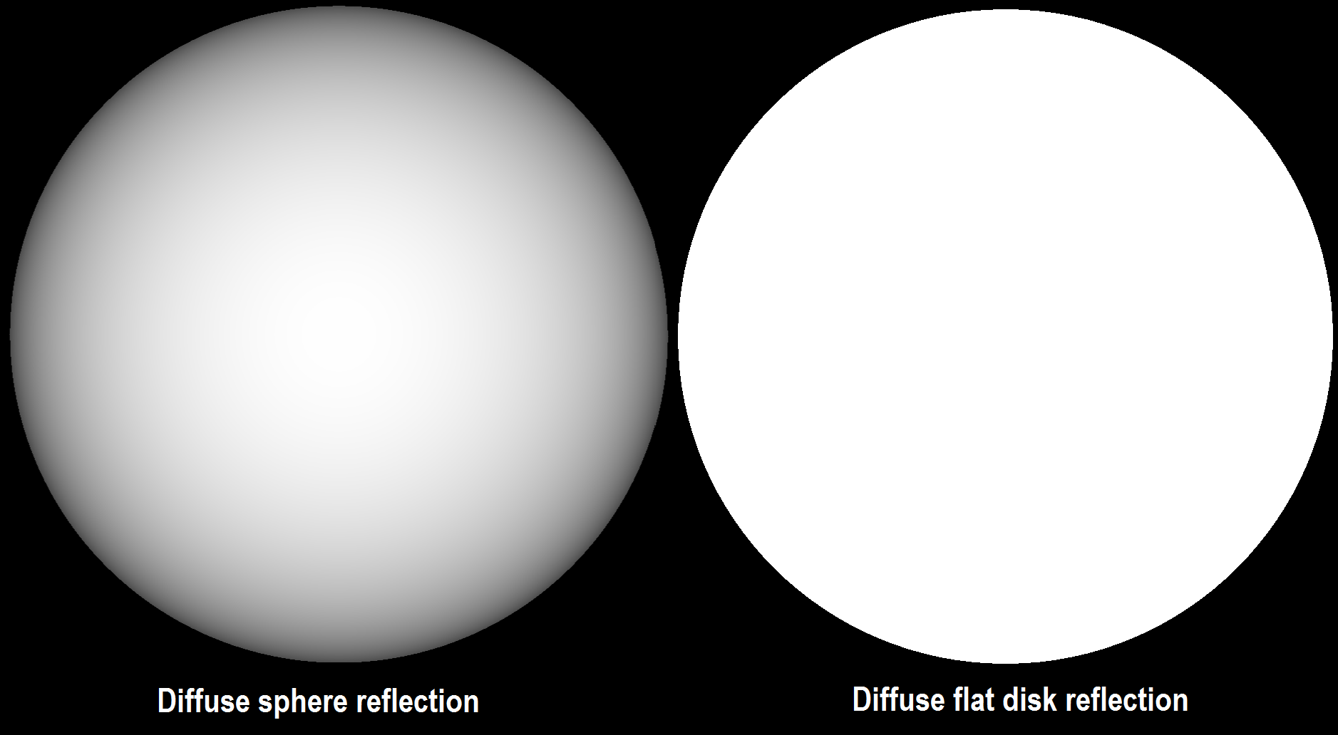 Diffuse reflection examples with zero incident angle of light and observer direction - sphere and disk, maximum brightness full pixel intensity.